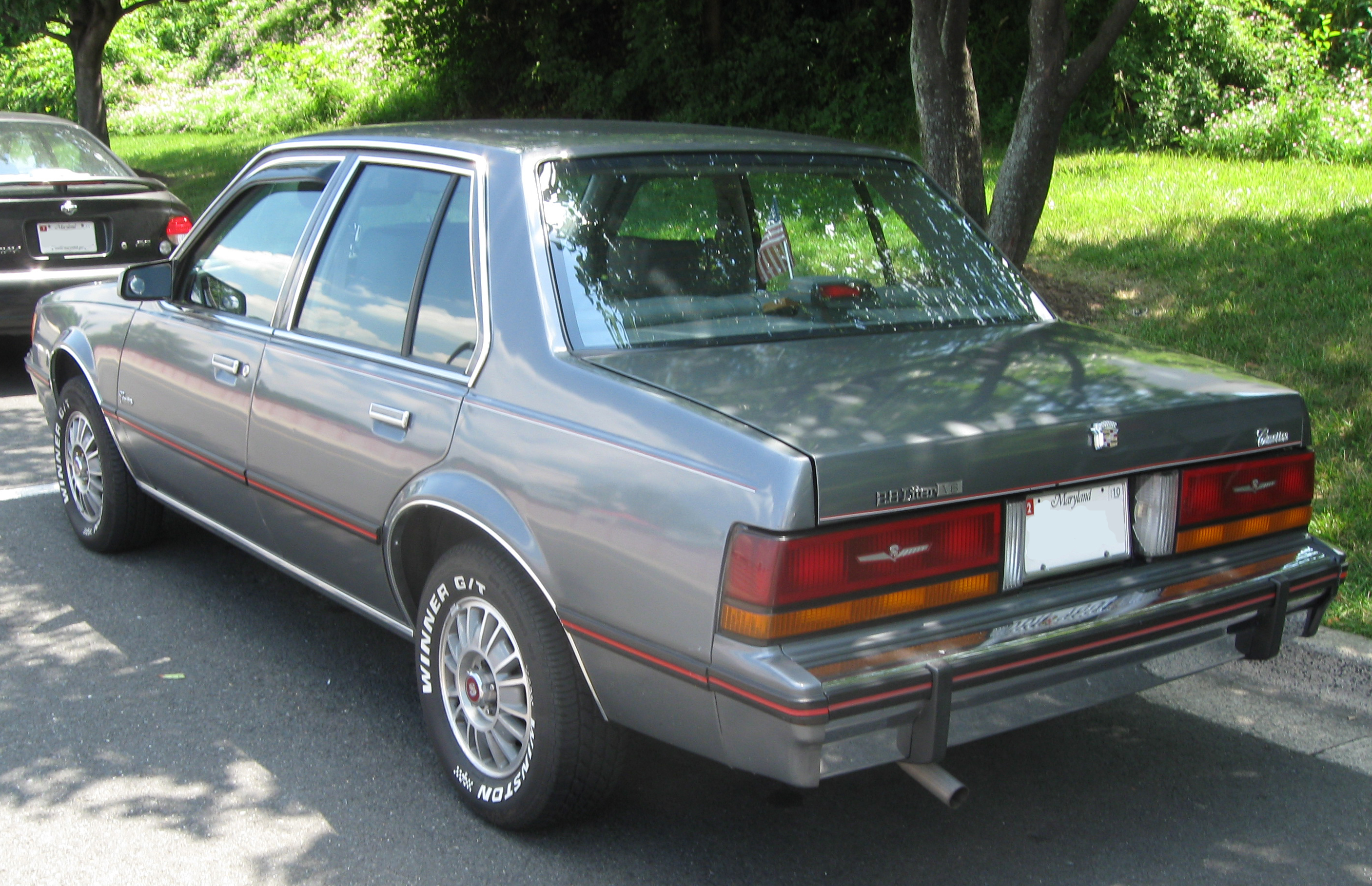 1985-1988 Cadillac Cimarron 2.8 photographed in Gaithersburg, Maryland, USA.